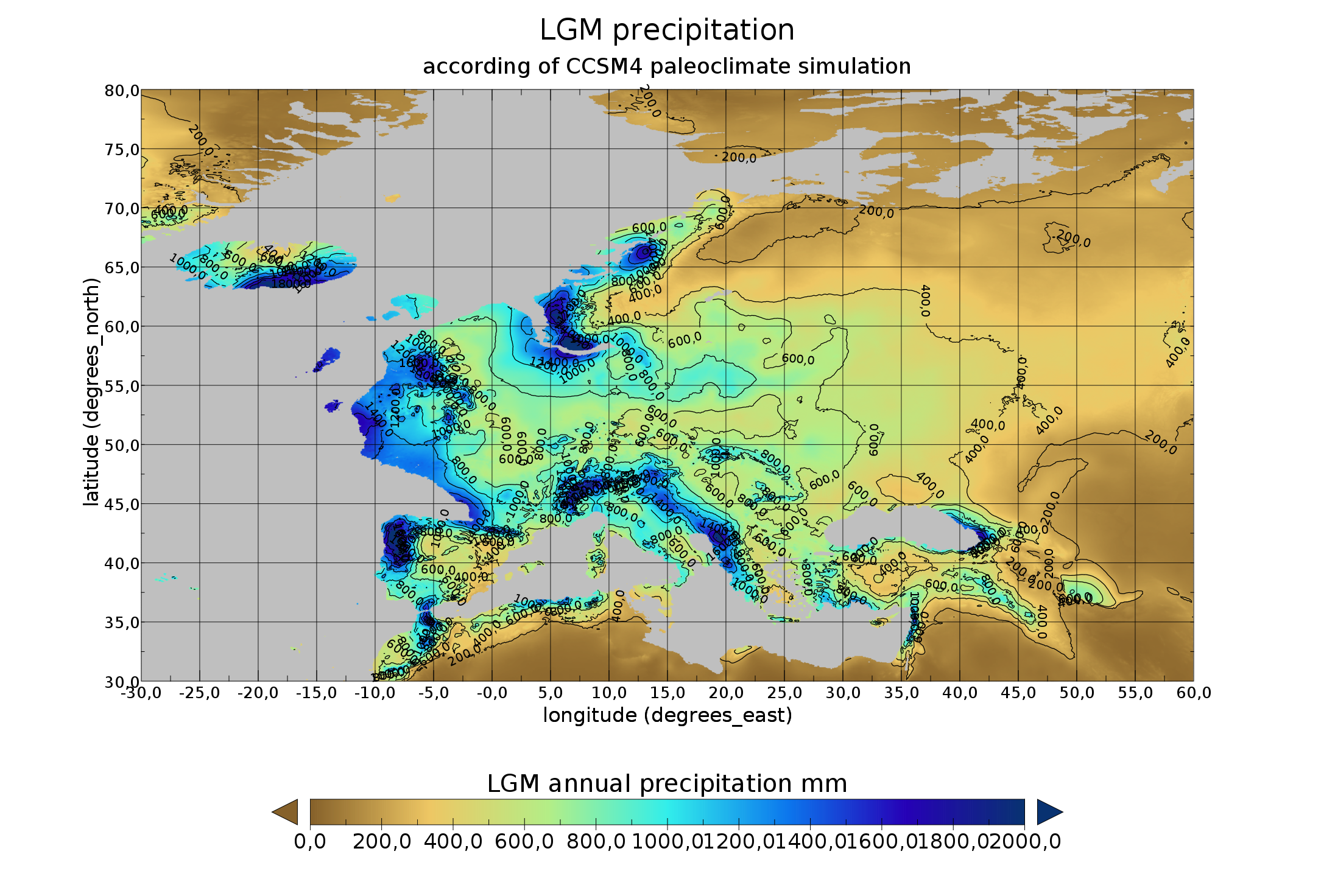 Average anual precipitation in Euripe at last glacial maximum (LGM, ca. 21 ka BP), according of CCSM4 paleoclimate simulation.